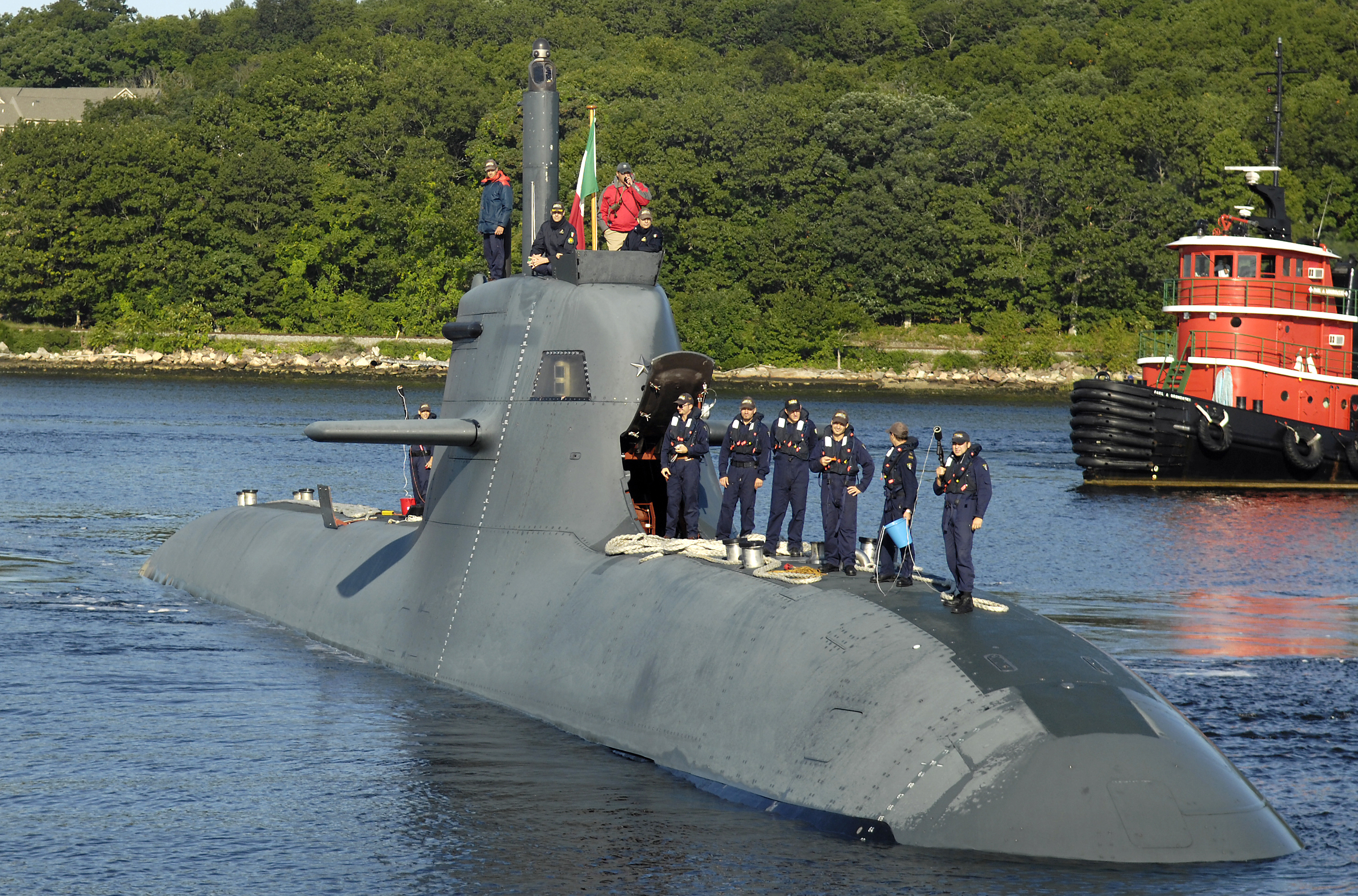 080821-N-8467N-002 GROTON, Conn. (Aug. 21, 2008) Italian submarine ITS Salvatore Todaro (S 526) pulls into Submarine Base New London to begin a 14-day visit. Todaro has also made port visits to Mayport, Fla., and Norforlk, Va., marking the first time since World War II that an Italian submarine has crossed the Atlantic.